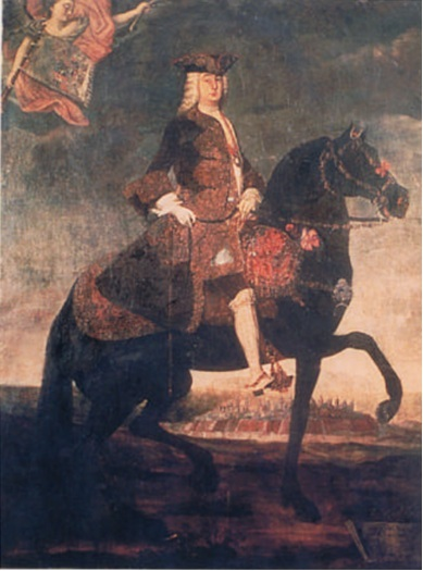 Equestrian portrait of Jose Antonio Manso de Velasco, count of Superunda